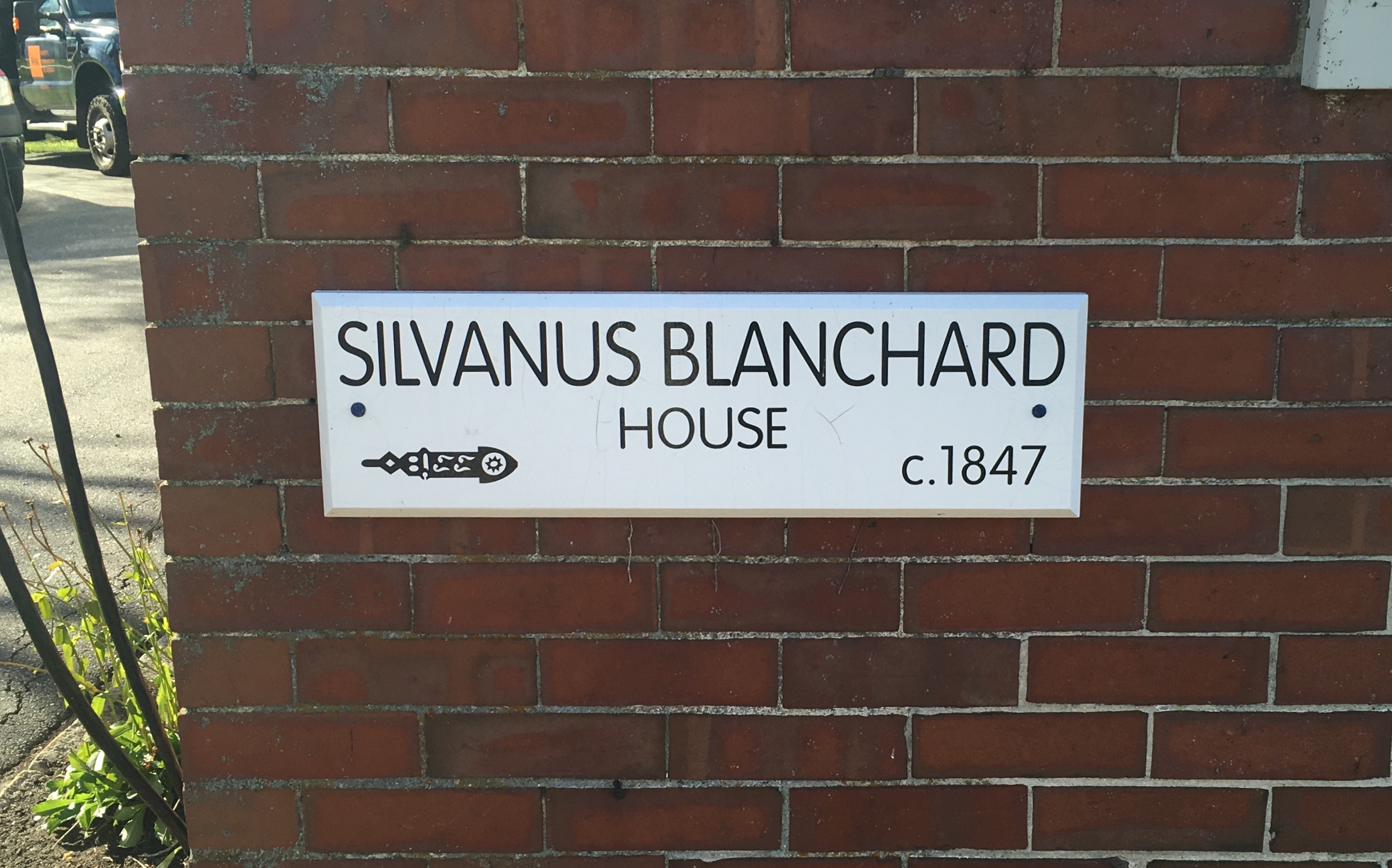 Sylvanus Blanchard's house, Yarmouth, Maine, USA